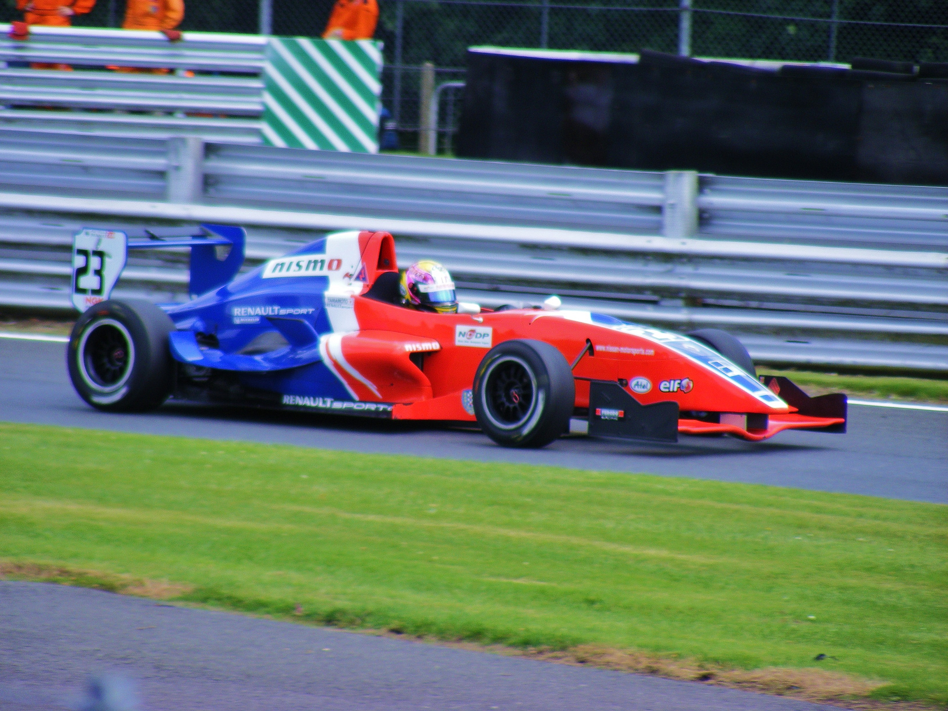 Ryuji Yamamoto exits the pit lane at Oulton Park at begin his qualifying session.